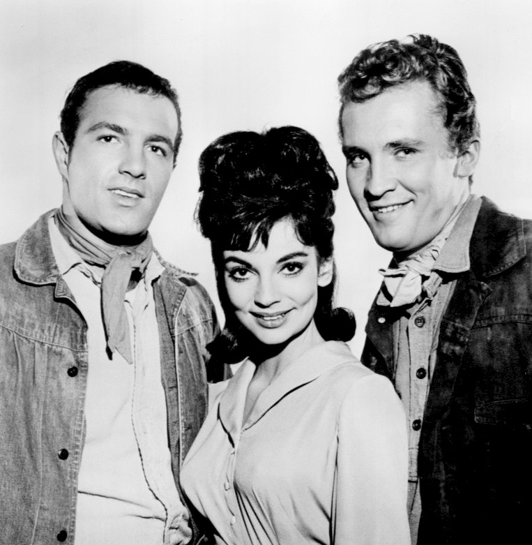 Photo of James Caan, Karyn Kupcinet and Roy Thinnes from an episode of the program Death Valley Days.